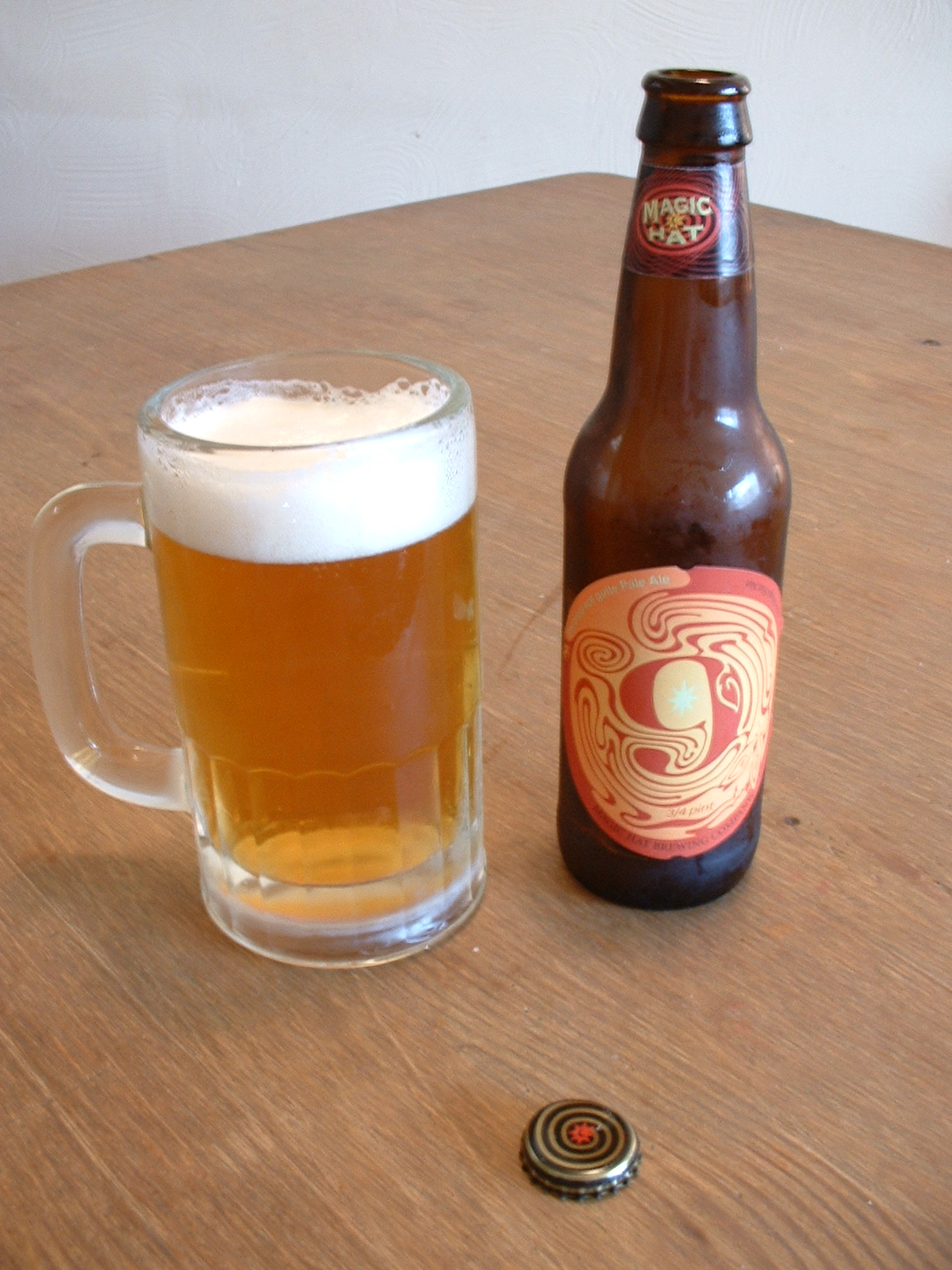 A bottle and frosty mug of Magic Hat No. 9 beer, produced by the Magic Hat Brewing Company.